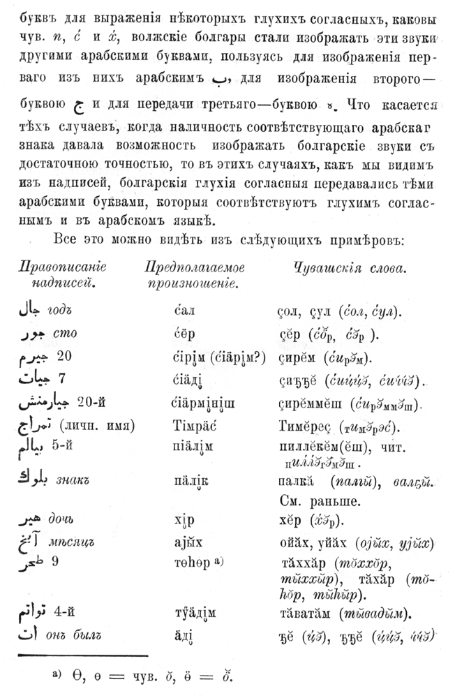 Scan of book "Bolgar and Chuvash". Author N. I. Ashmarin. Book was published in 1902.